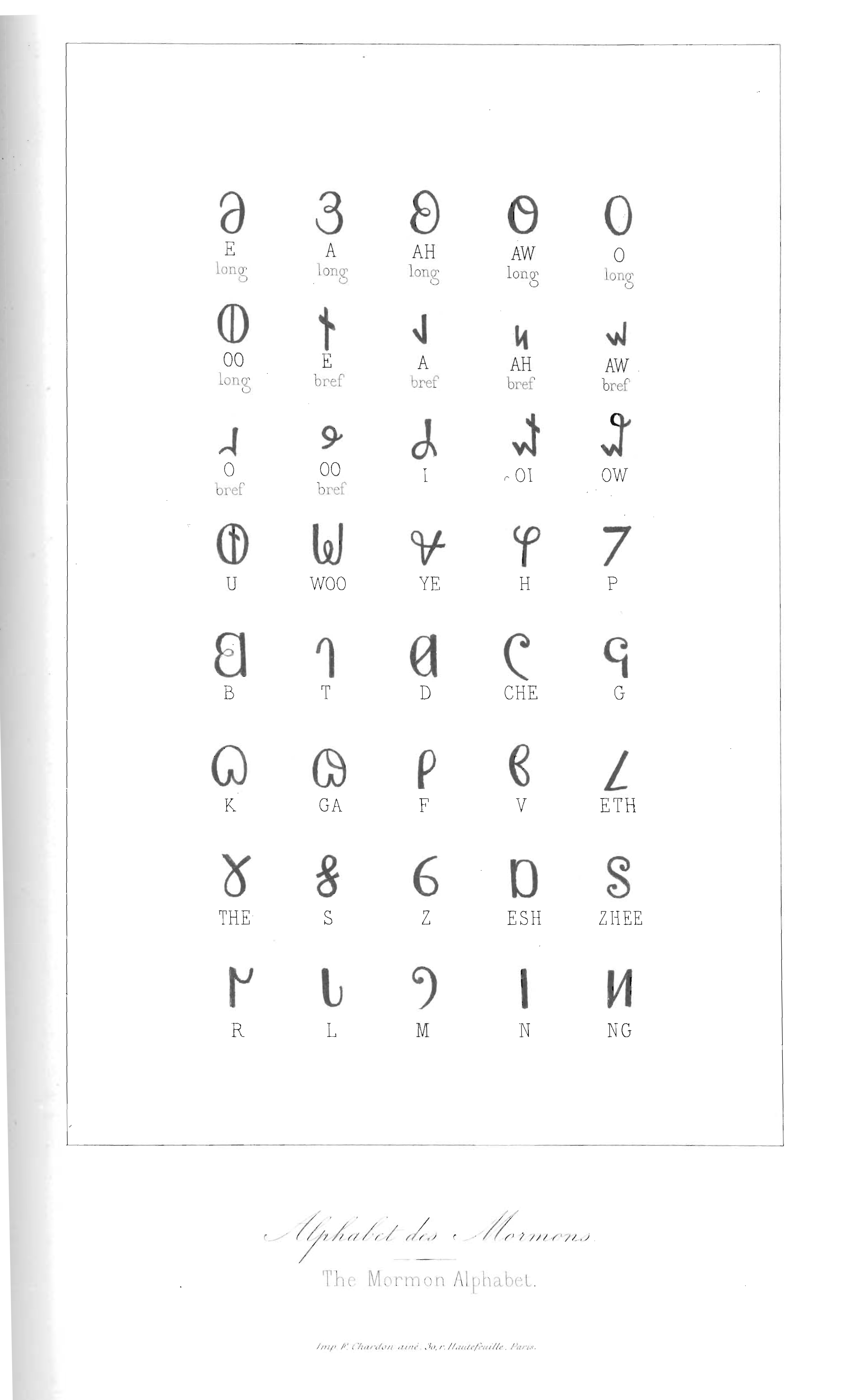 Early Deseret alphabet chart found in Jules Remy and Julius Brenchley's A Journey to Great-Salt-Lake City (1855)